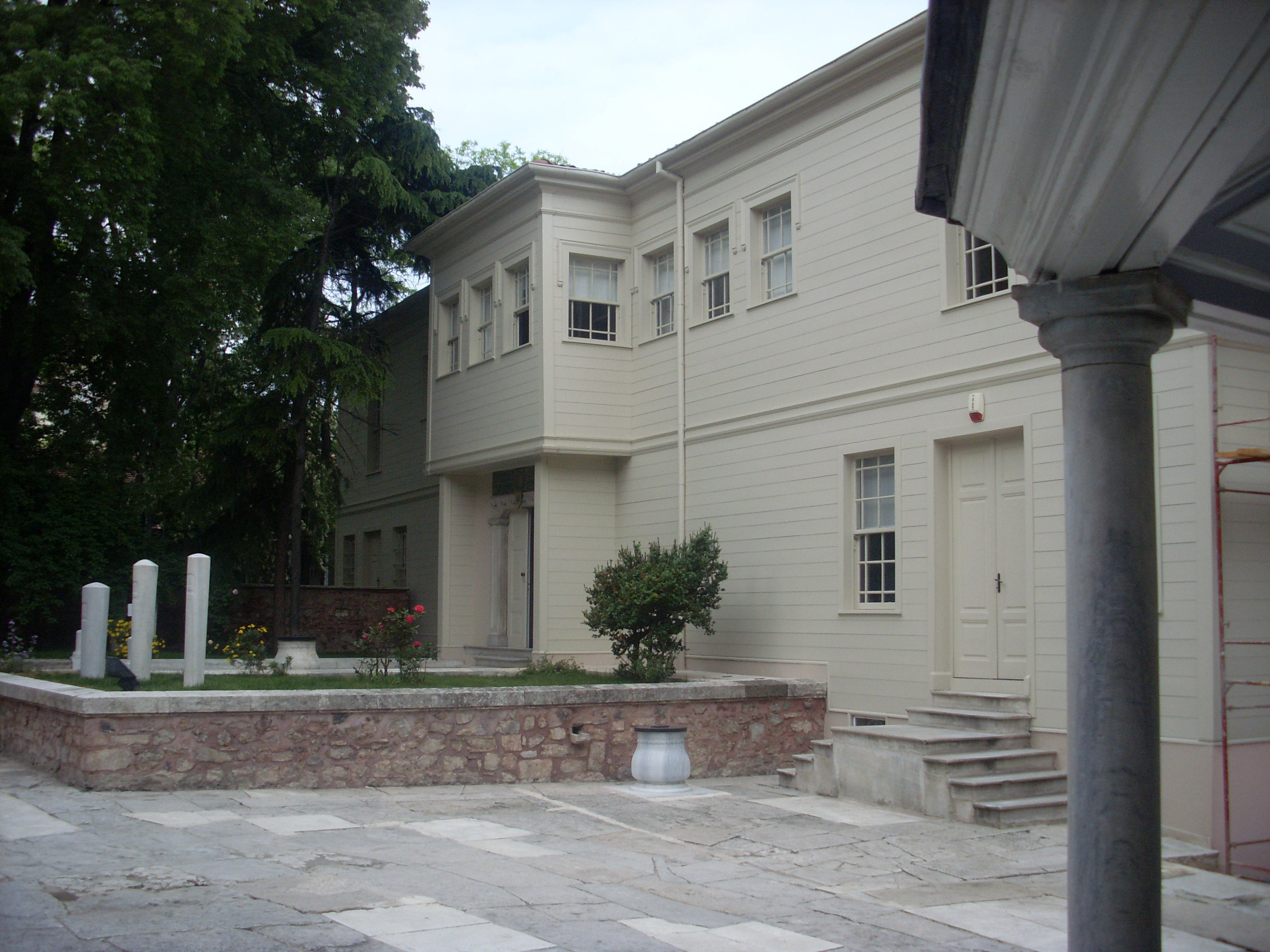 Galata Mevlevihanesi Müzesi 4